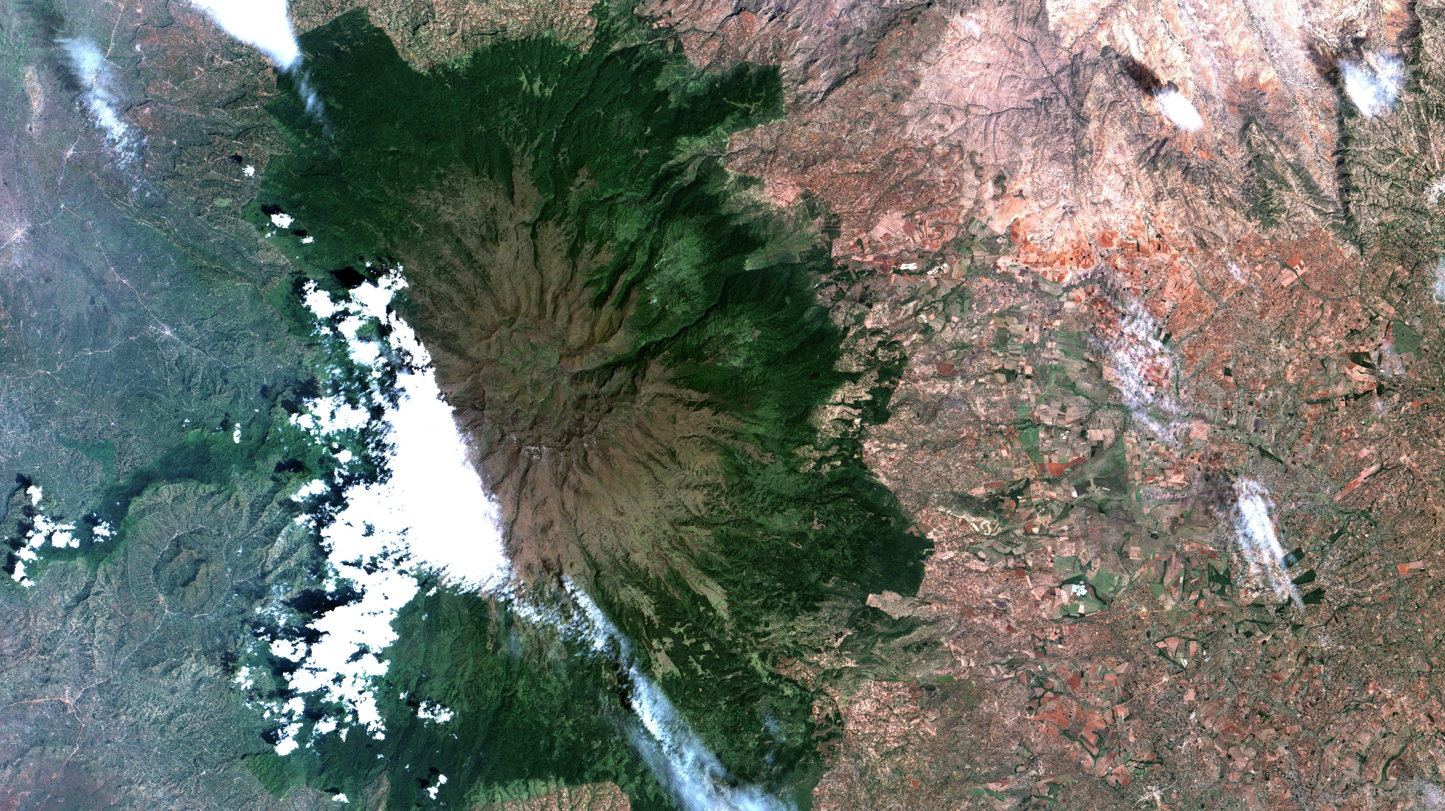 Mount Elgon, extinct volcano at Uganda - Kenya border, Africa. Agricultural areas appear in orangeish saltpepper, montane forest in dark green, bamboo forest in light green, alpine zone and heathland in brown. Image CBERS4 MUX Monte Elgon, Uganda - Kenya Date: 06-01-2019 / 2019-06-01